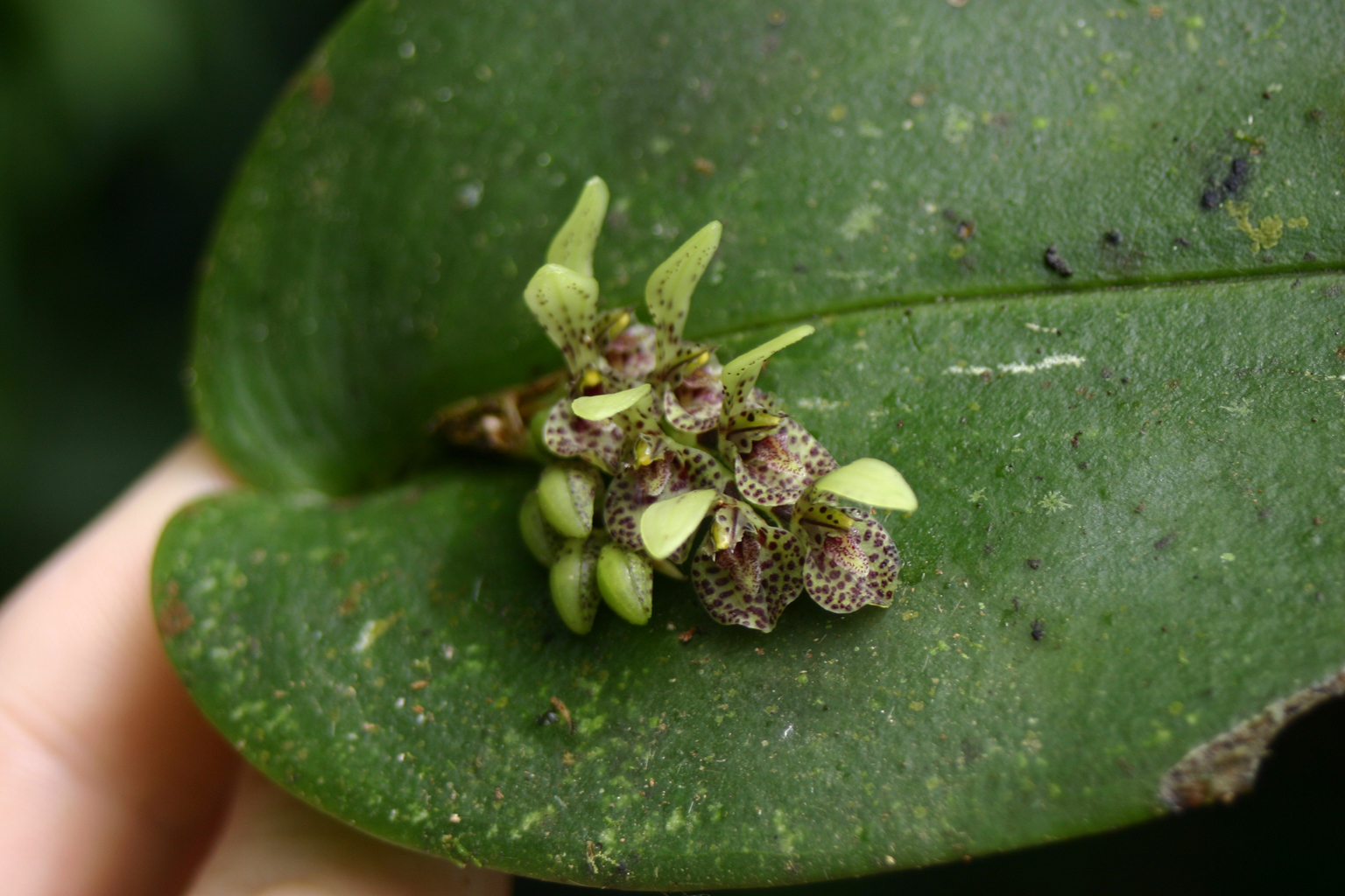 Found on a fallen tree branch over a small quebrada in Monteverde. I love the mottling on the flowers! Wish I'd had a macro lens on me when I found this thing, the flowers were very small.